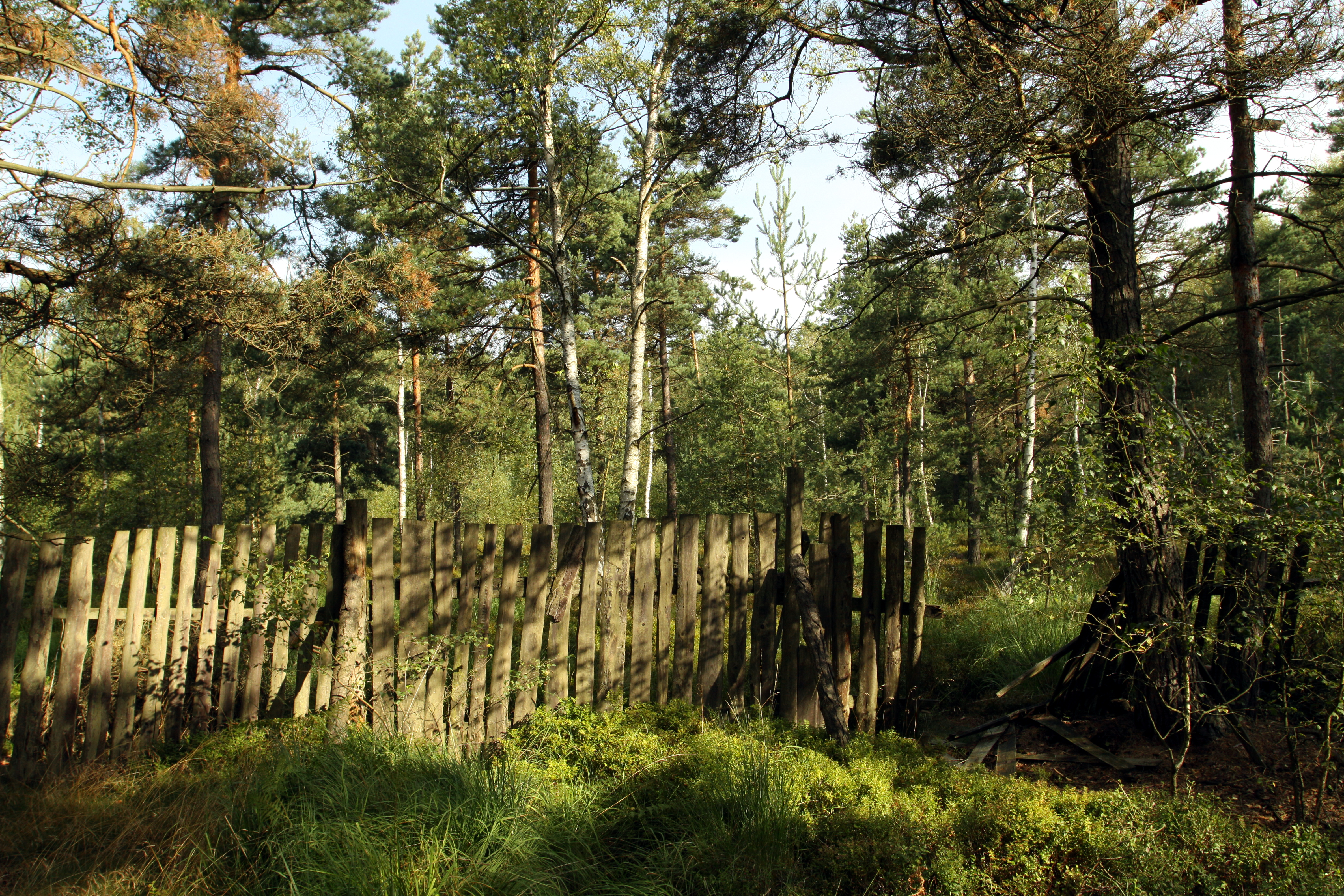 Nature reserve Rájecká rašeliniště near Tisá village in Ústí nad Labem District, Czech Republic - Google Maps - Google Earth